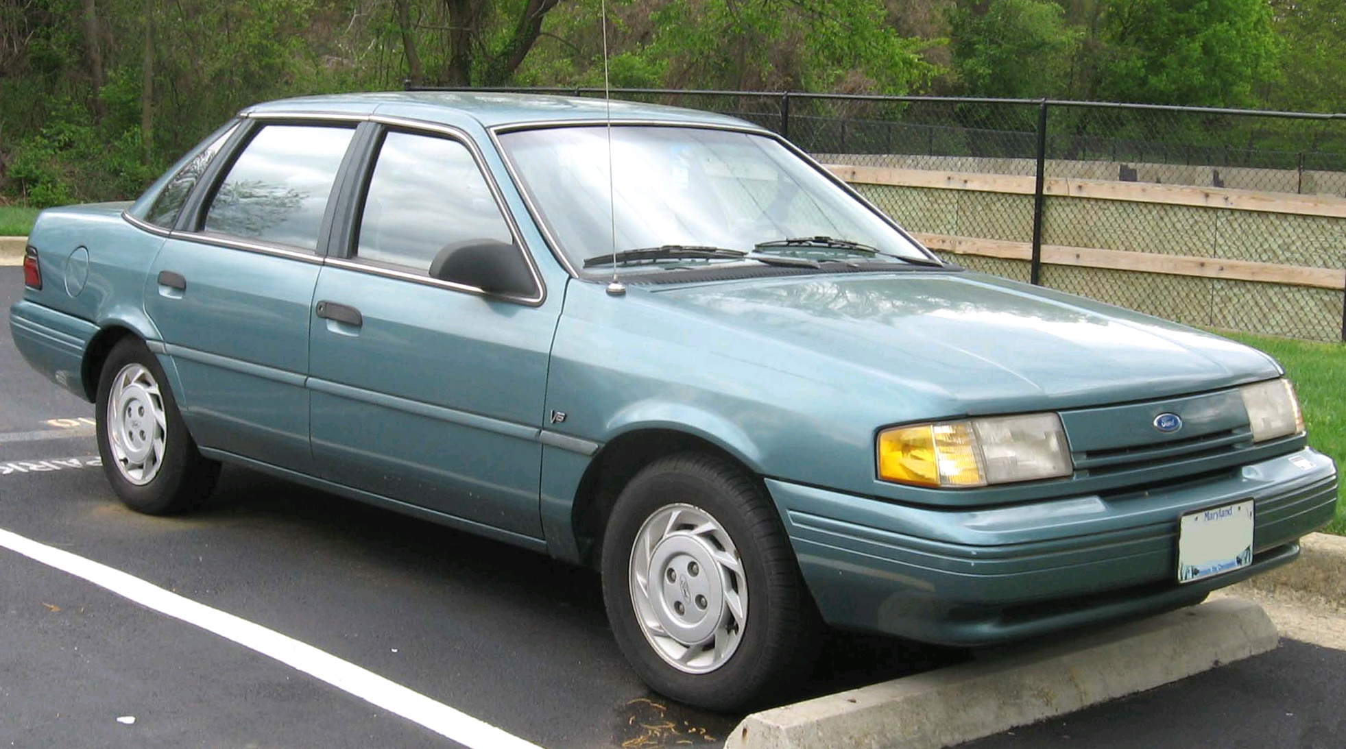 1992-1994 Ford Tempo photographed in Kensington, Maryland, USA.